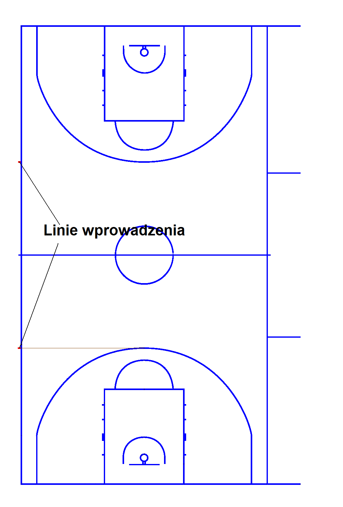 Basketball court